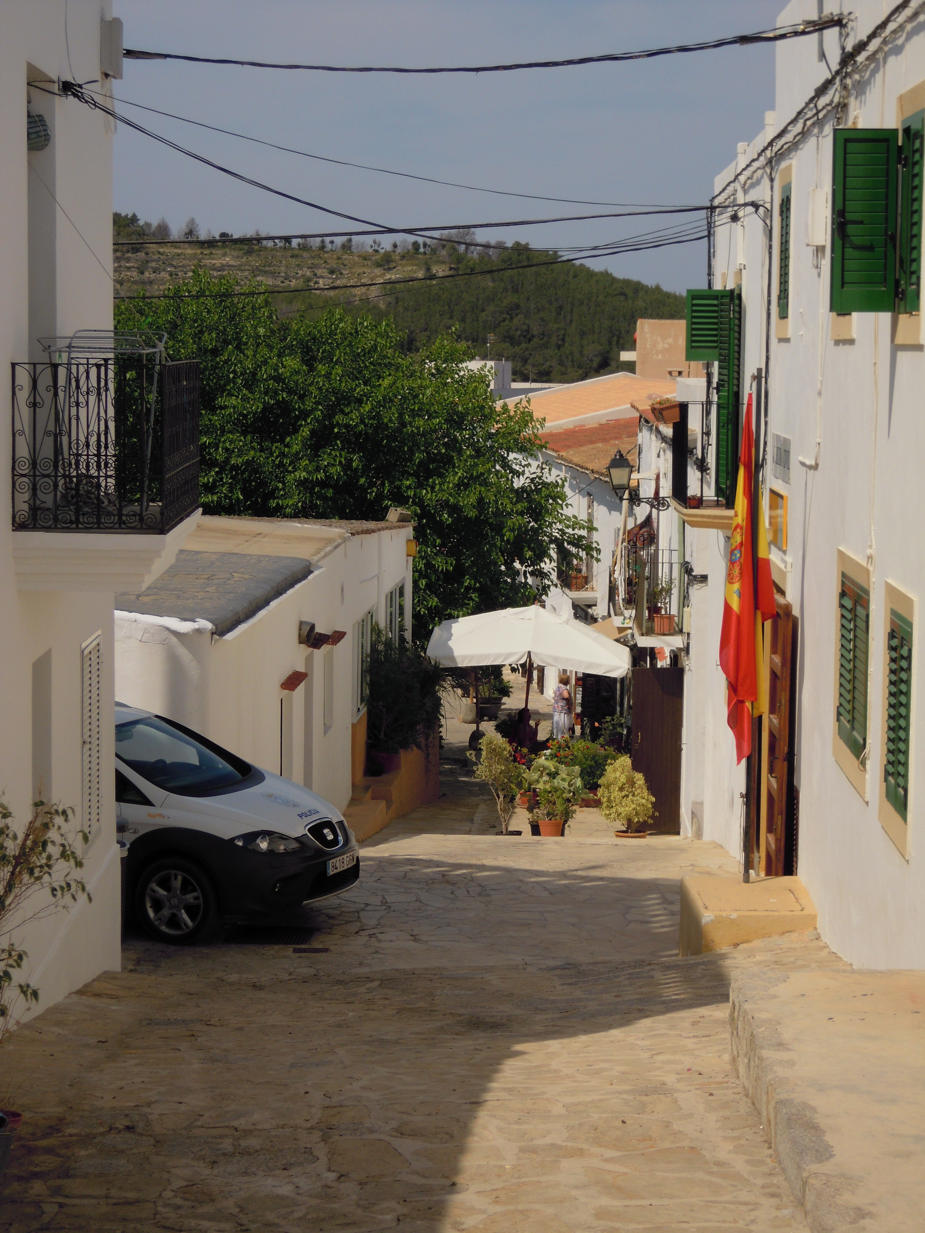 Street in the Center of the village of Sant Joan de Labritja, Ibiza, Spain